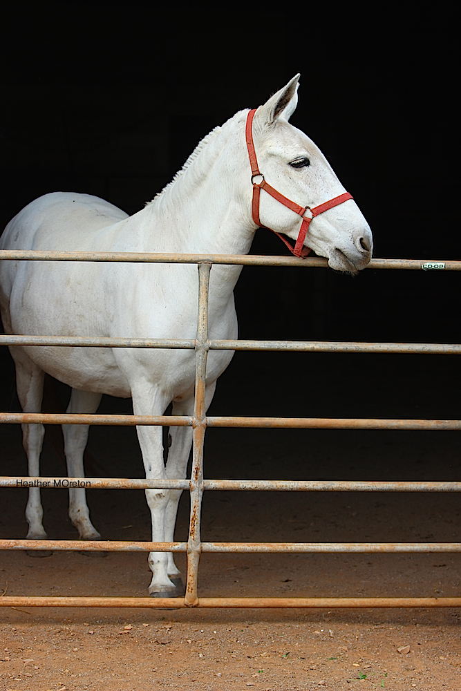 Grey Mule